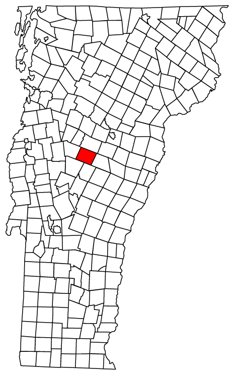 Description: Map of Vermont towns with Roxbury highlighted Source: Map created by Jared C. Benedict on 26 March 2004. Copyright: © Jared C. Benedict.